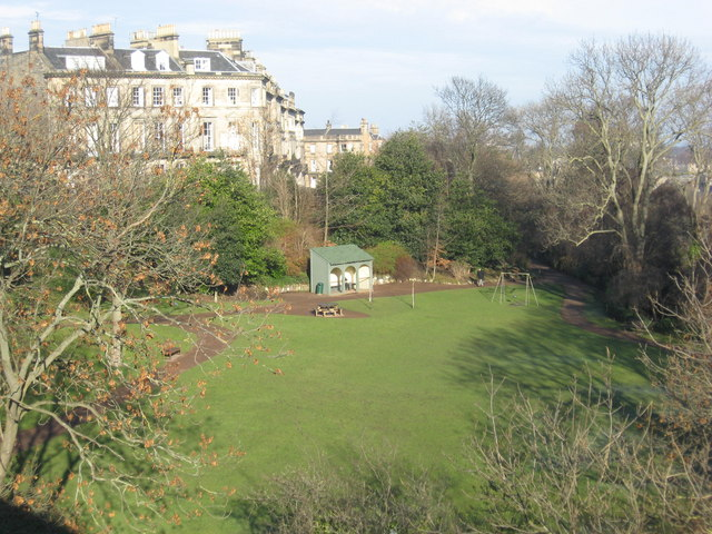 Dean Gardens Like many Edinburgh gardens in the New Town, not open to the public but £100 will get you a key for a year.